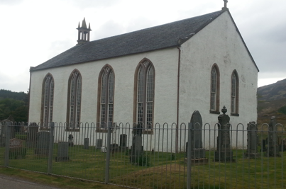 Lochcarron Old Parish Church. Also known as East Church.